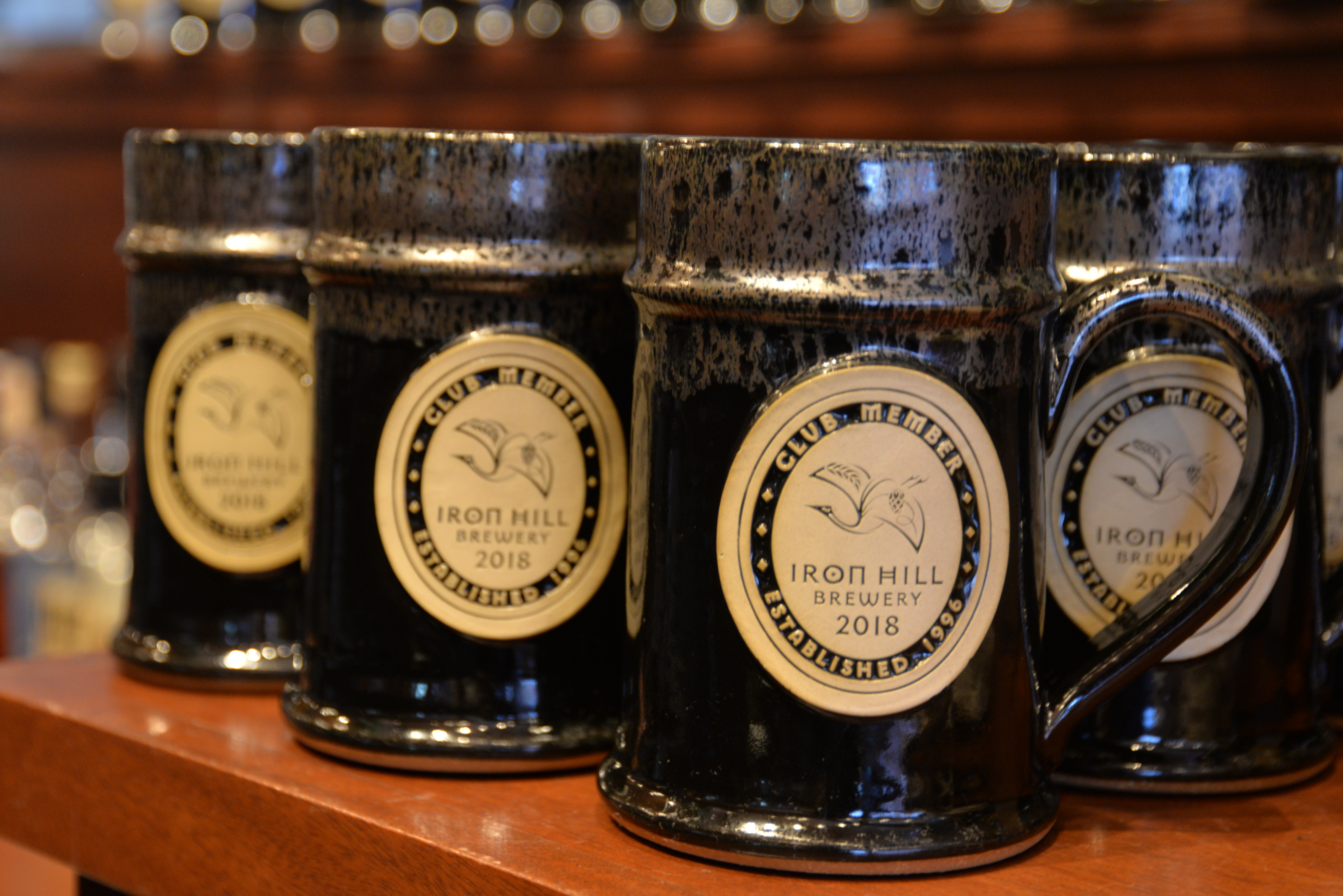 Iron Hill Brewery & Restaurant 2018 King of the Hill Mugs.